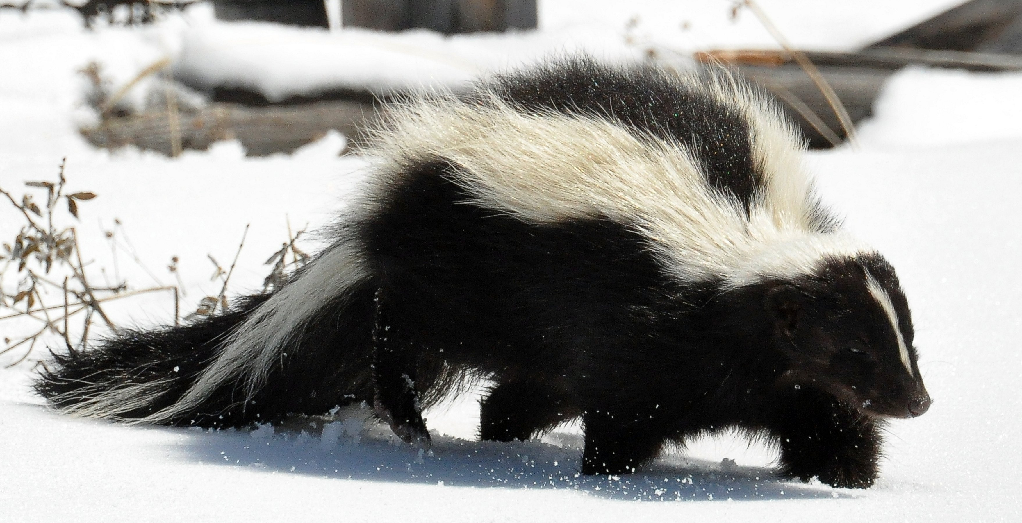 Crop of file in filename